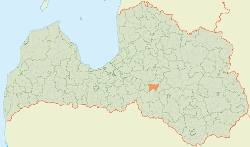 Location of Koknese Parish in Latvia